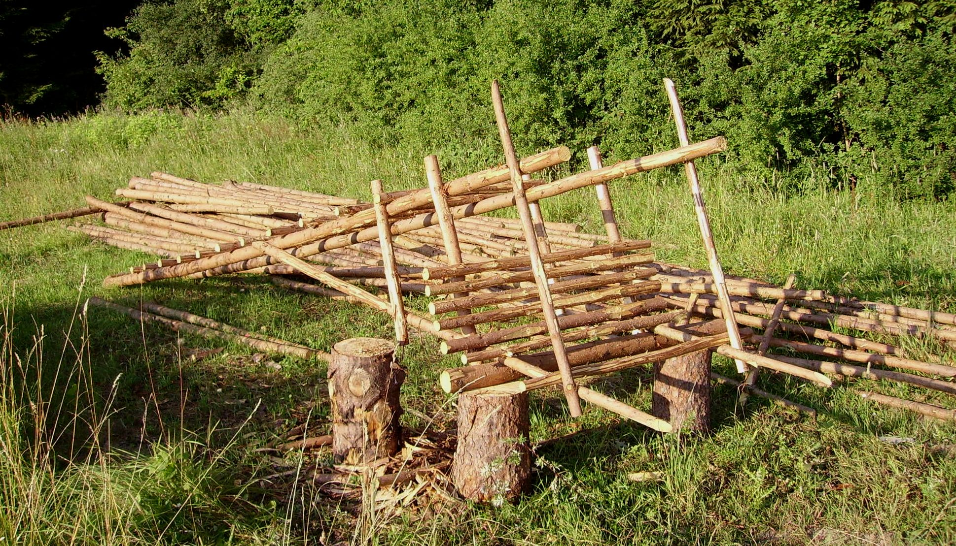 village in Germany